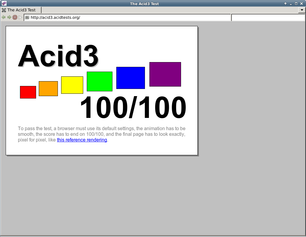 Xombrero passing Acid3 test with 100/100 rendering